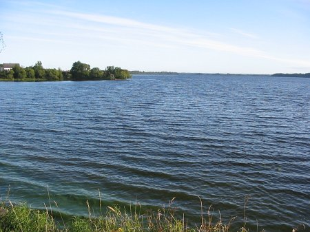 This work is free and may be used by anyone for any purpose. If you wish to use this content, you do not need to request permission as long as you follow any licensing requirements mentioned on this page.